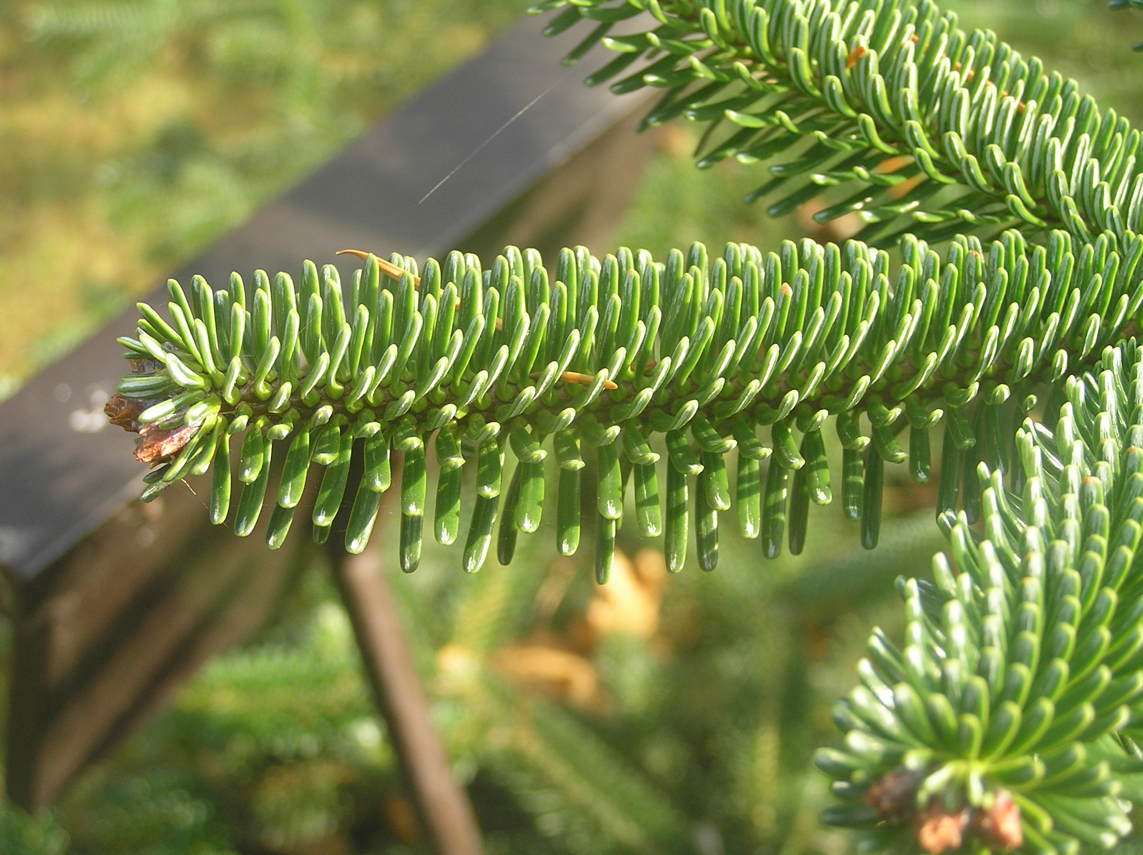 Abies numidica, cultivated in the Czech Republic, arboretum Žampach